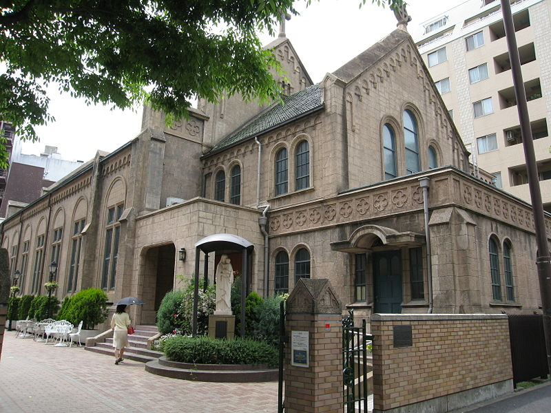 St. FRANCIS XAVIER CHURCH "Kanda Catholic Church" Tokyo , Japan